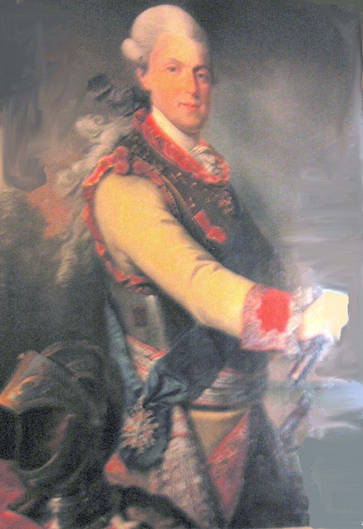 Federico Augusto de Sajonia, Duque de Varsovia (1750-1827)